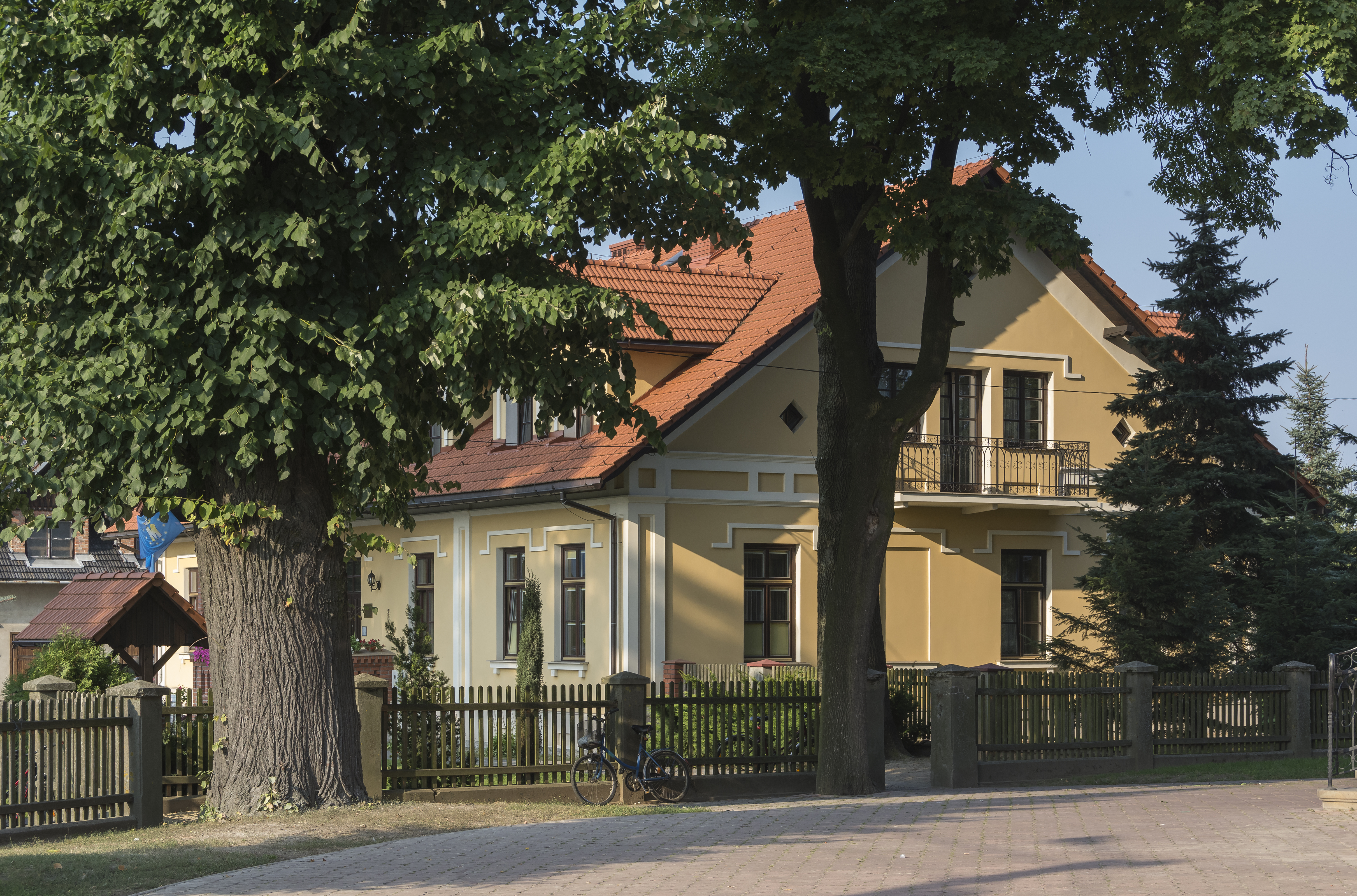 Rectory in Chorzelów